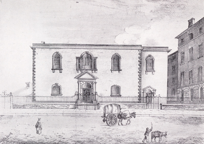 Cross Street Chapel, Manchester, UK in 1835. Scanned from Shercliff WH. 'Manchester A Short History of its Development' Municipal Information Bureau, Town Hall, Manchester (1960). The date of the original (1835) means that the author's copyright has expired, and it is in the public domain.